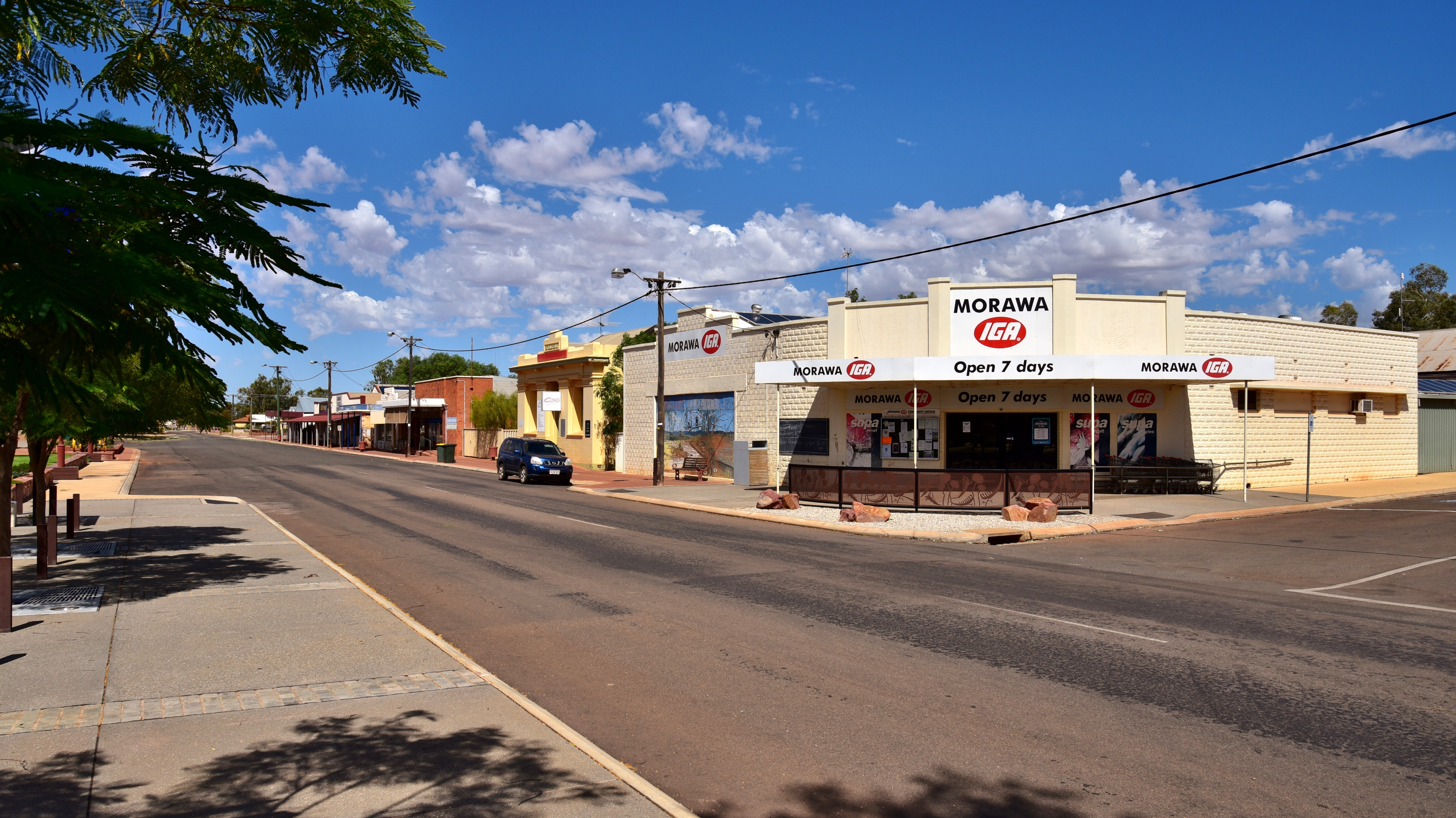 View of Winfield Street, the main street of Morawa, Western Australia